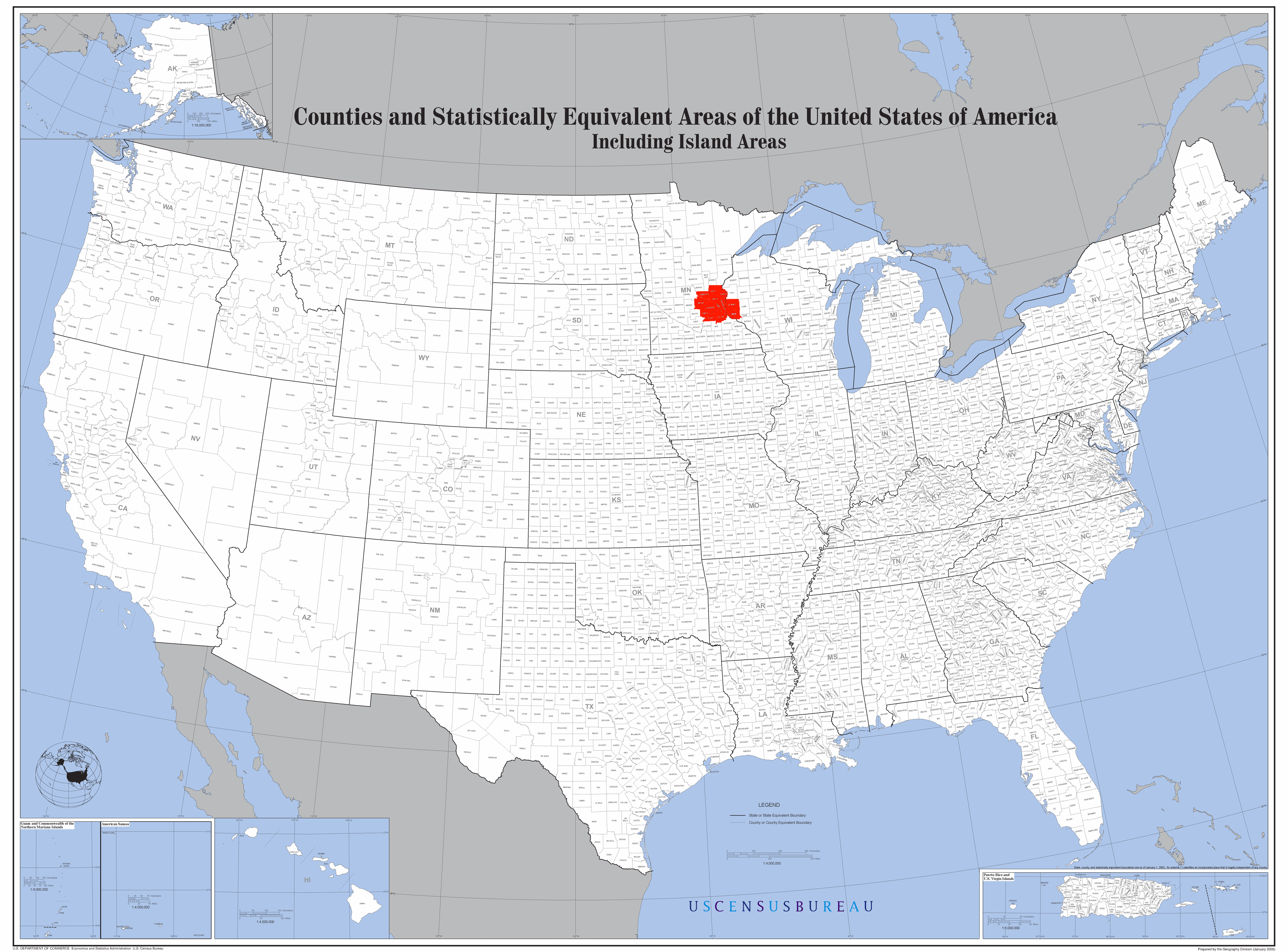 Edited Image:U.S. Counties.gif in w: .